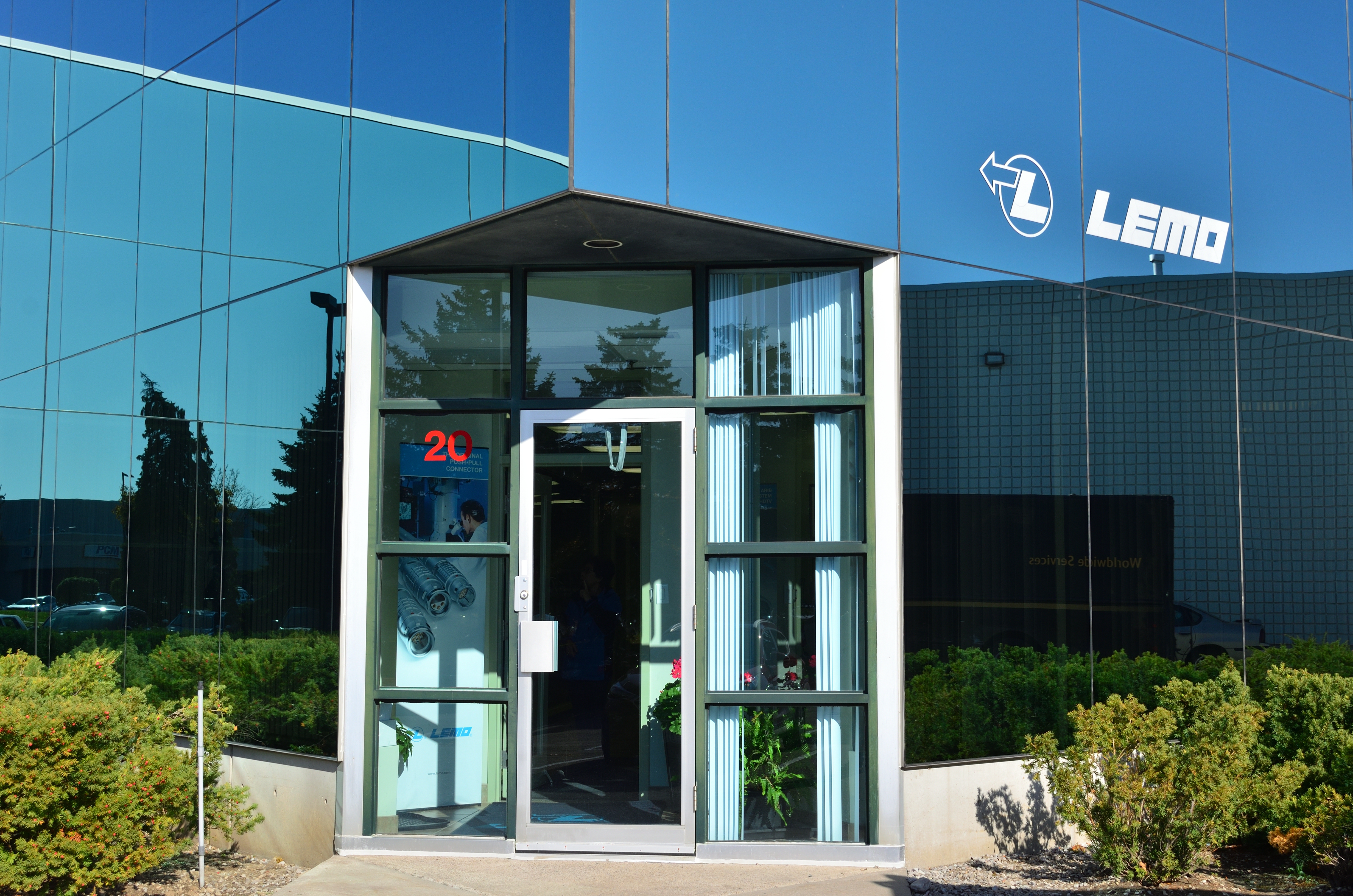 LEMO Canada - Address: 44 East Beaver Creek Rd, Richmond Hill, ON L4B 1G8